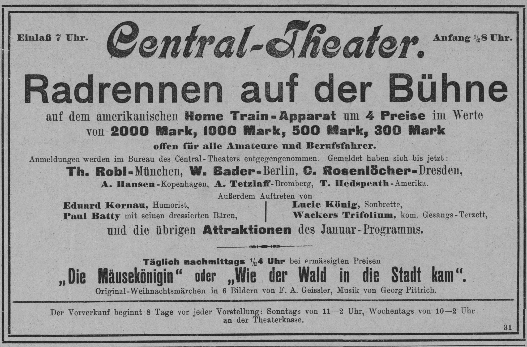 Scan from the Dresdner Journal, 1906